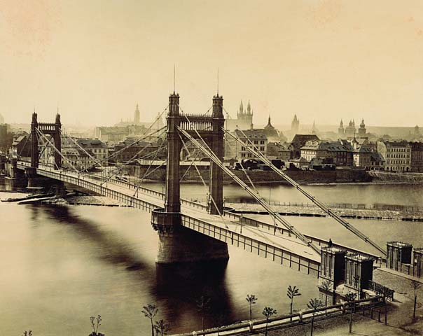 Chain Bridge of Franz Joseph I in Prague (demolished 1949)